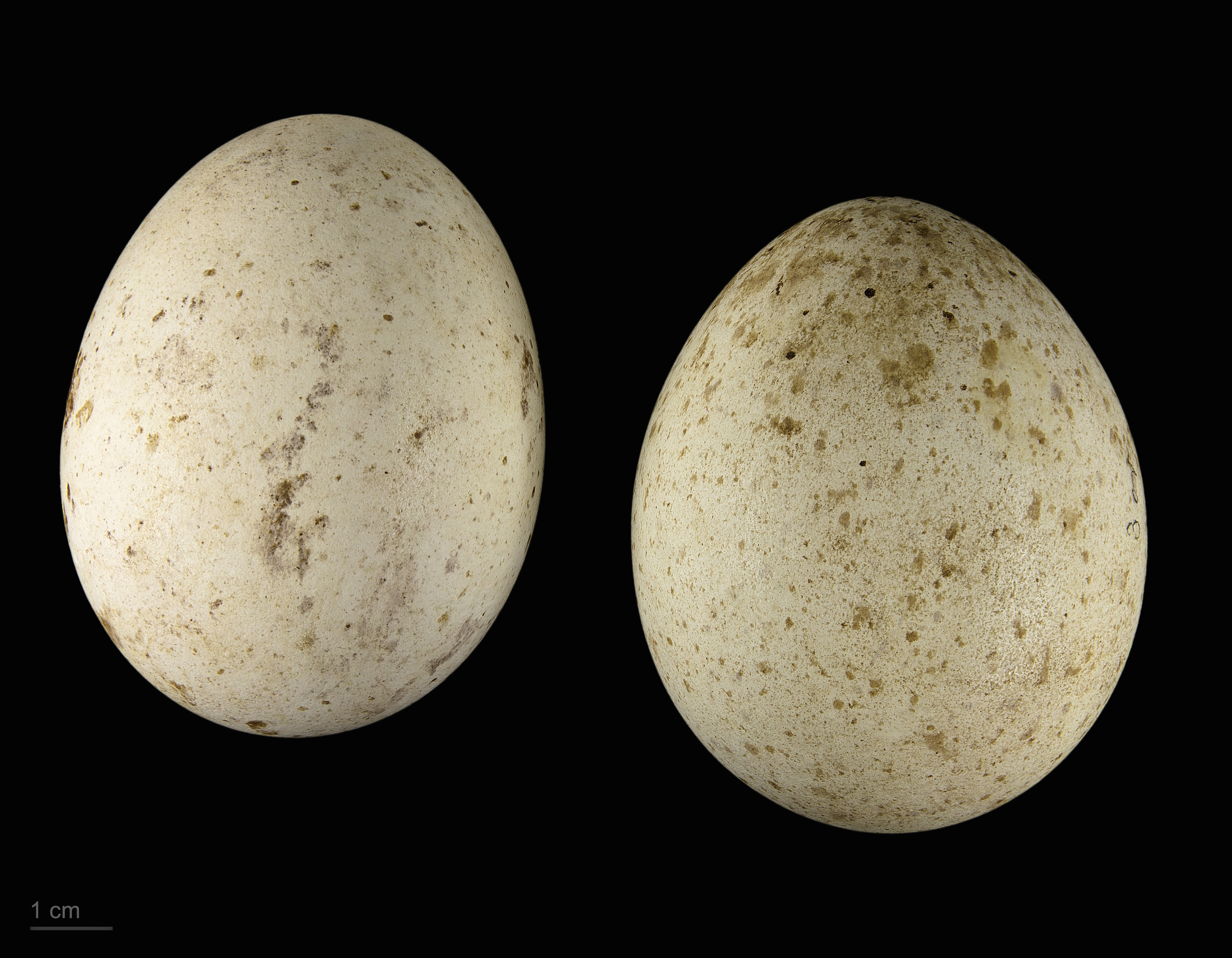 Eggs of steppe eagle Two specimens of the same spawn ; collection of Jacques Perrin de Brichambaut.